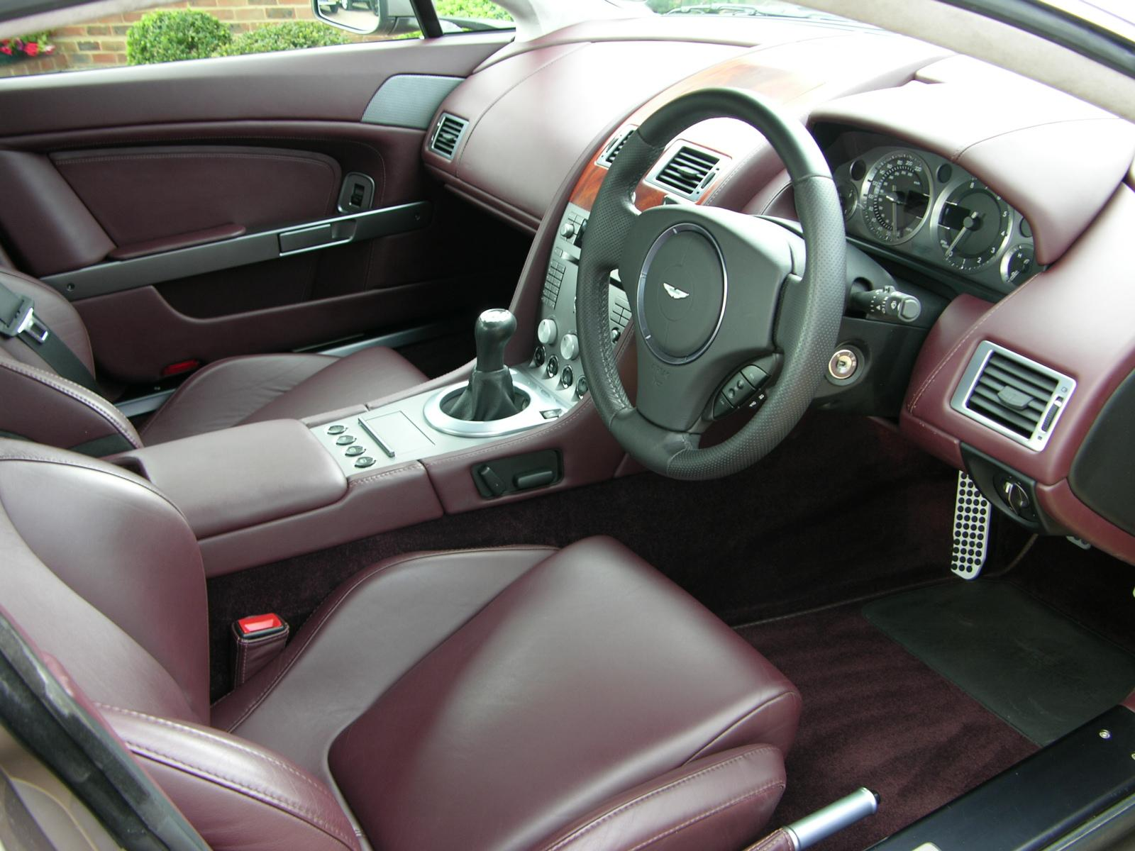 Aston Martin Vantage V8